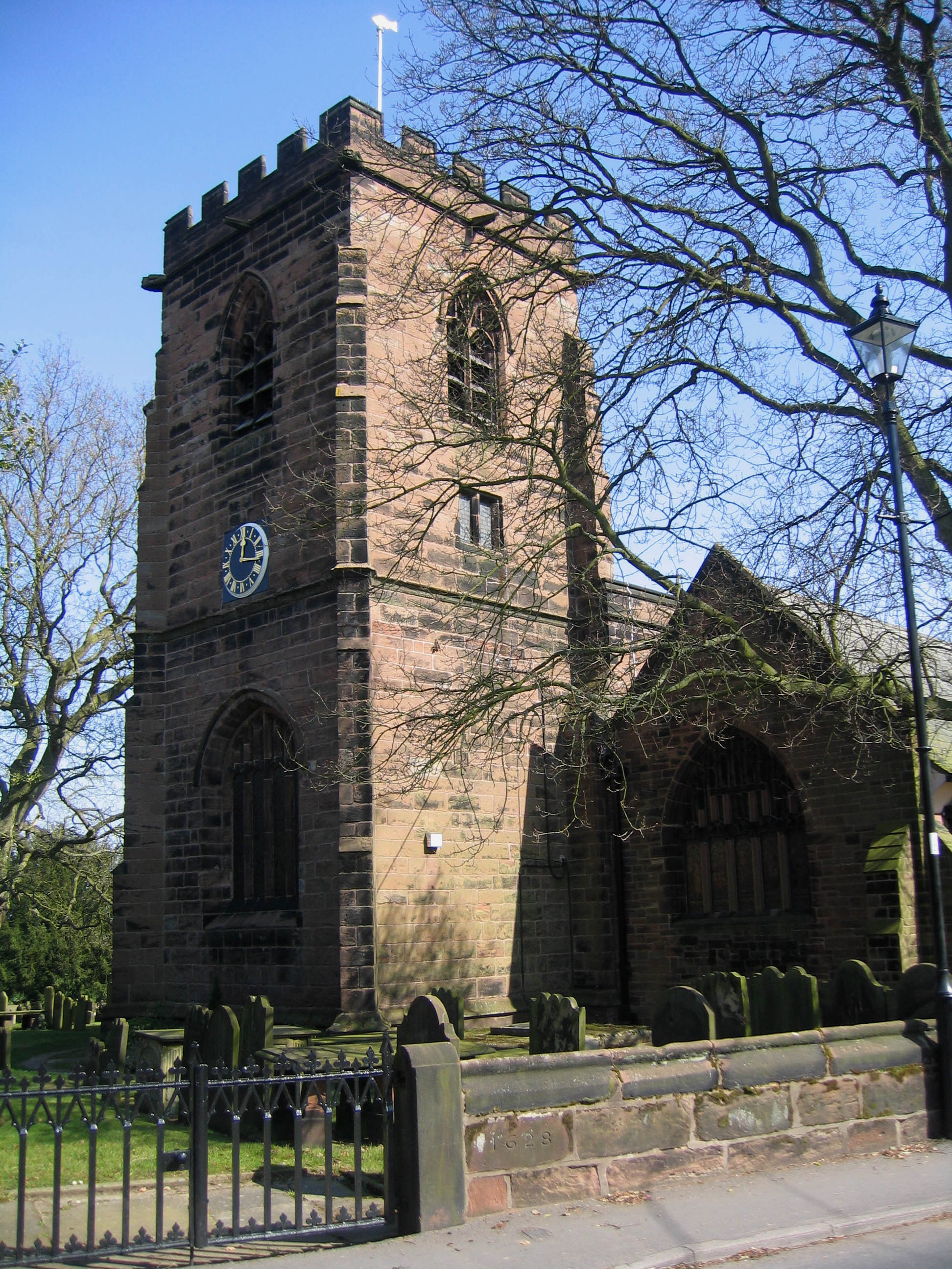 West tower of All Saints' parish church, Daresbury, Cheshire, seen from the southwest